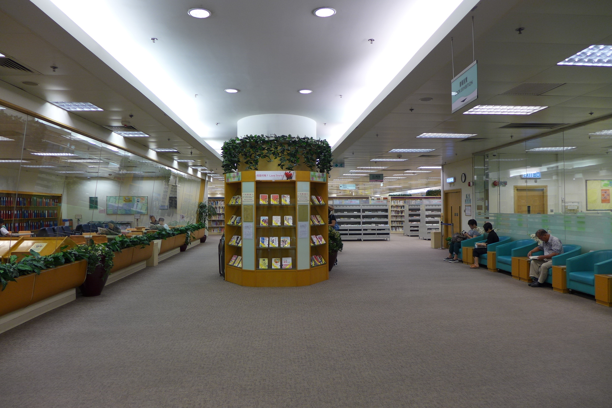 Fanling Public Library